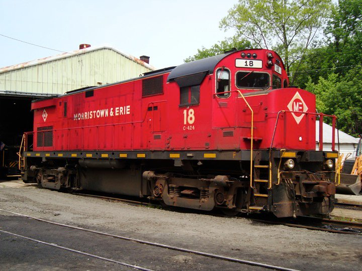 Morristown & Erie Railway locomotive #18 (a C424 built by Alco in 1964) sits outside the Morristown shop complex on May 11, 2010.